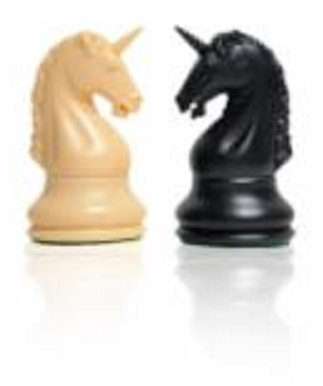 Unicorn fairy chess piece